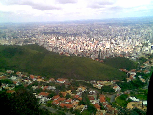 Mangabeiras